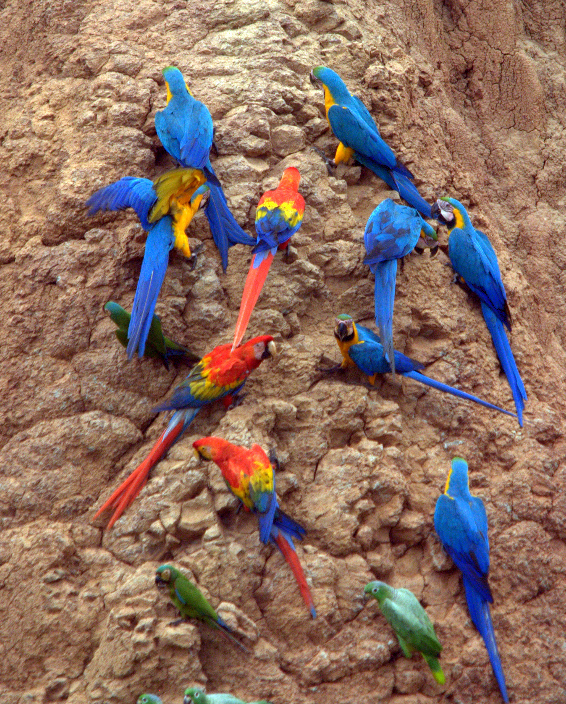 Blue-and-yellow Macaws, Scarlet Macaws, Mealy Amazons, and Chestnut-fronted Macaws at the clay lick at Tambopata National Reserve, Peru.